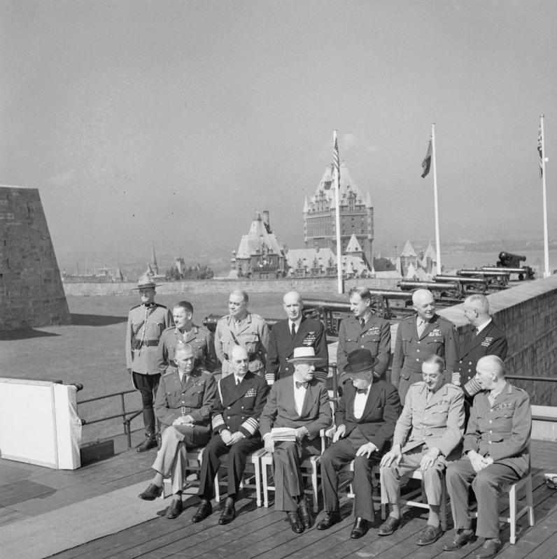 Winston Churchill at the Second Quebec Conference, September 1944 Churchill and President Roosevelt with Allied chiefs of staff on the the terrace at the Citadel at Quebec, 16 September 1944.